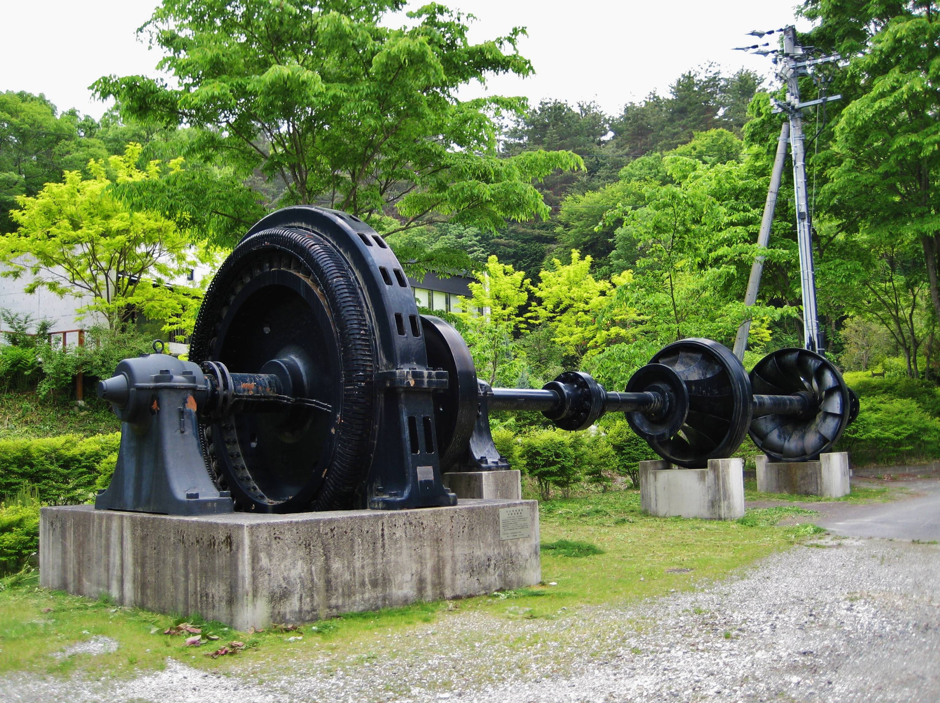 Ōkubo power station old hydroelectric generator (Komagane Kōgen Art Museum).